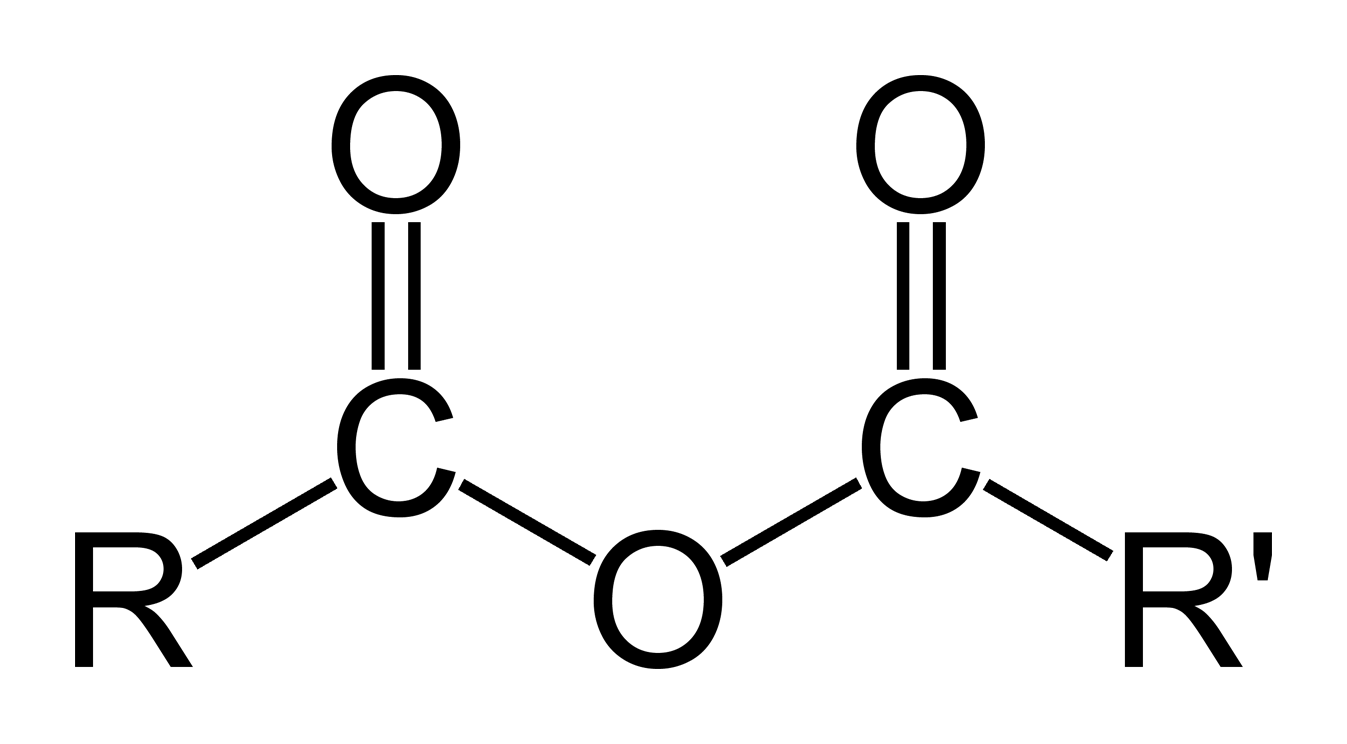 Description: Structural formula of a general carboxylic anhydride group ((RCO)2O). Author, date of creation: self made by Ben Mills at 17:29, 8 March 2006 (UTC). Source: user-created image Comments: high-resolution black and white PNG; ChemDraw / Photoshop.